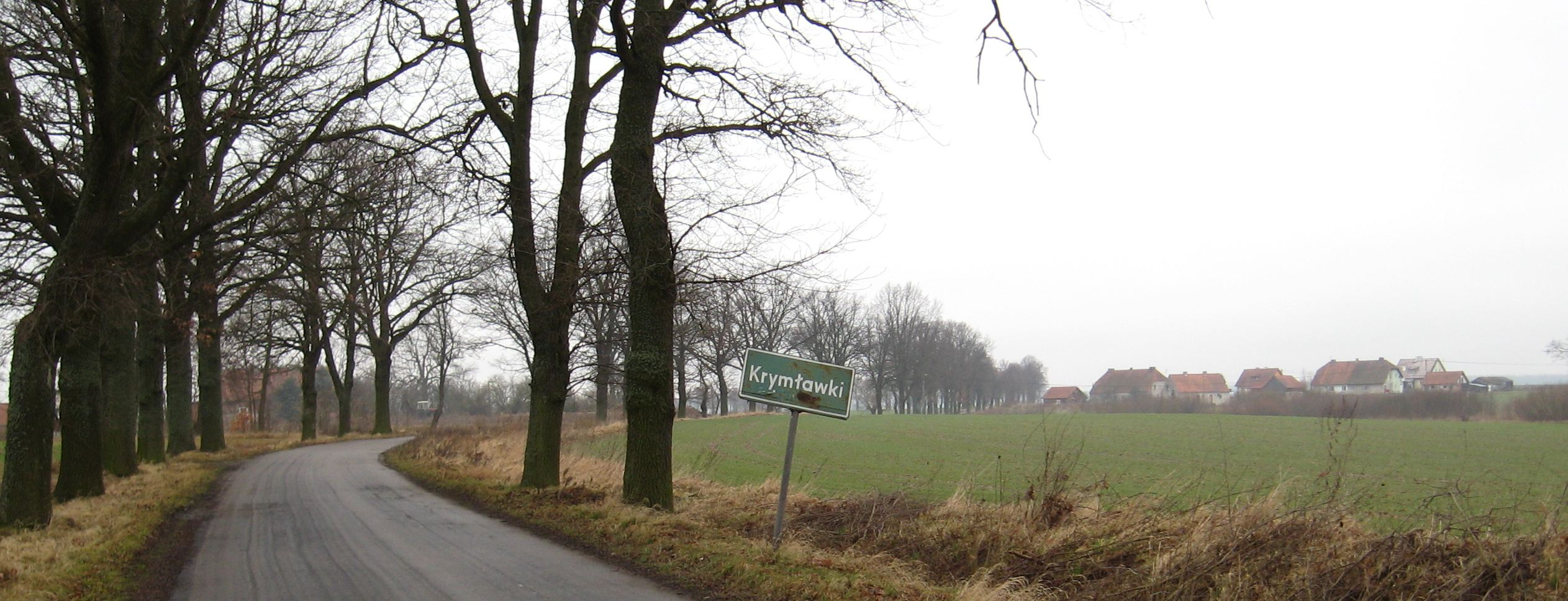 The village Krymławki in Poland - OpenStreetMap (Info)